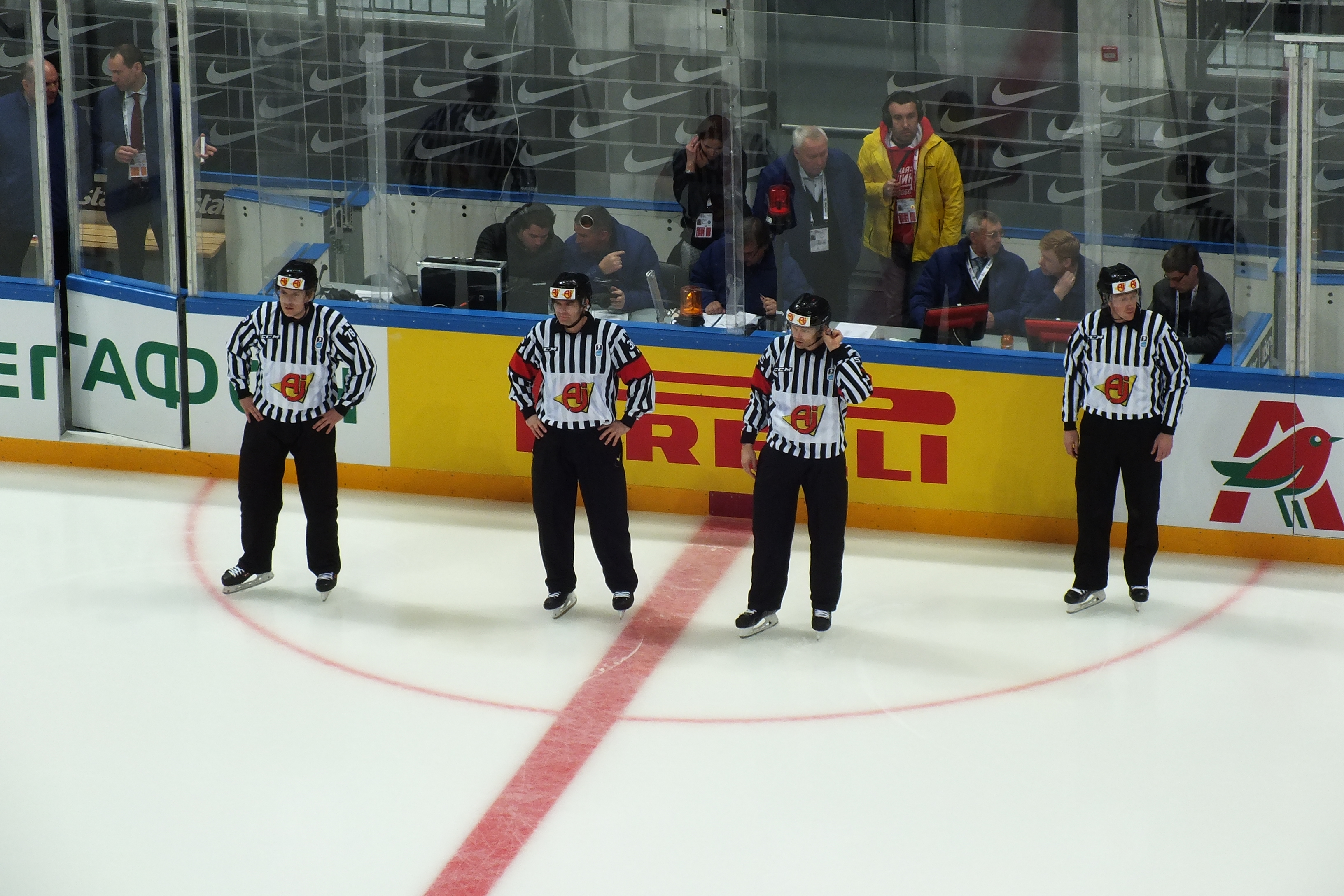 2016 IIHF World Championship - Norway vs. Denmark (07.05.16).